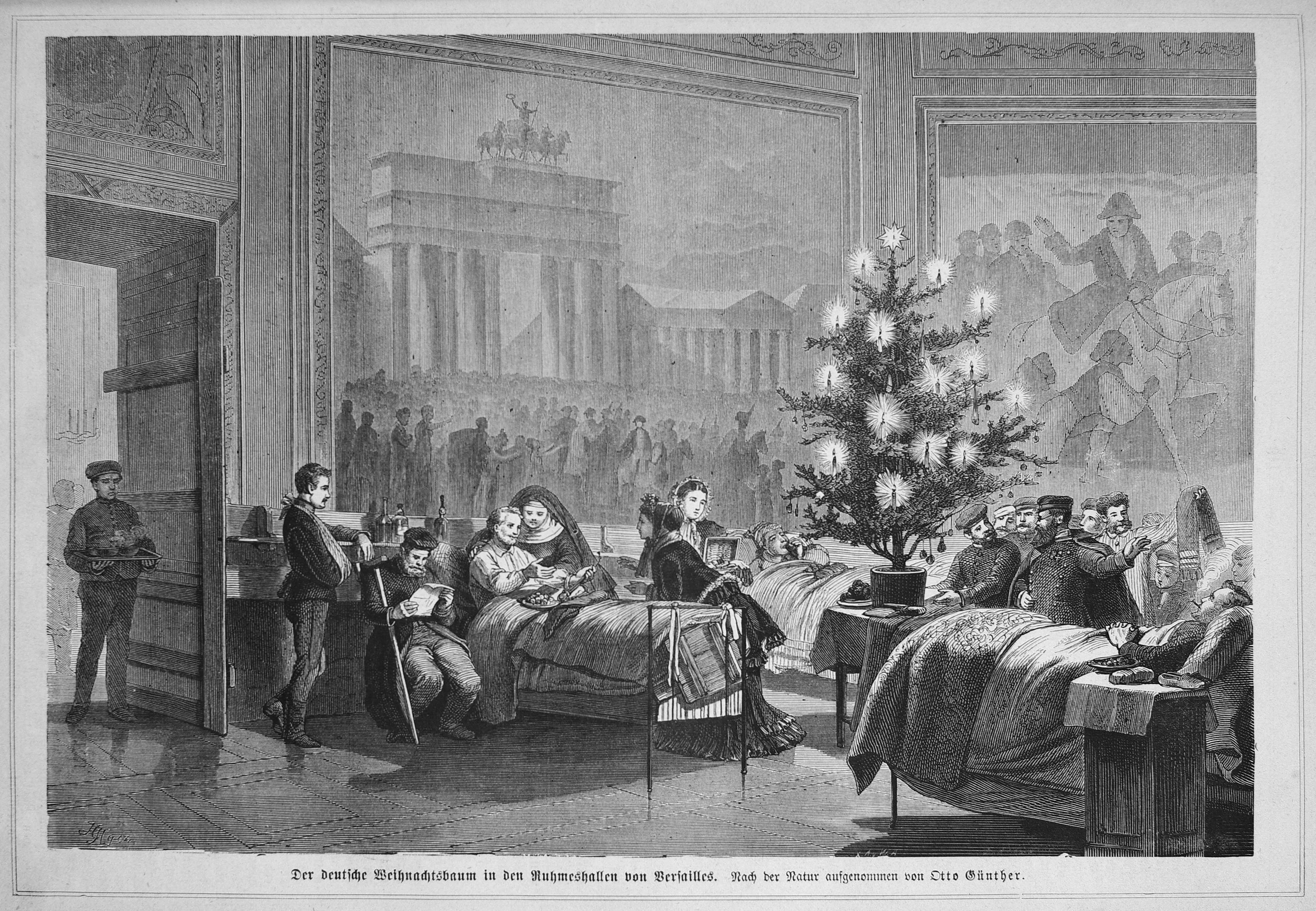 Page 109 from journal Die Gartenlaube for 1871.Extracted image (if any): File:Die Gartenlaube (1871) b 109.jpg - hi res, ~2.5 MB.